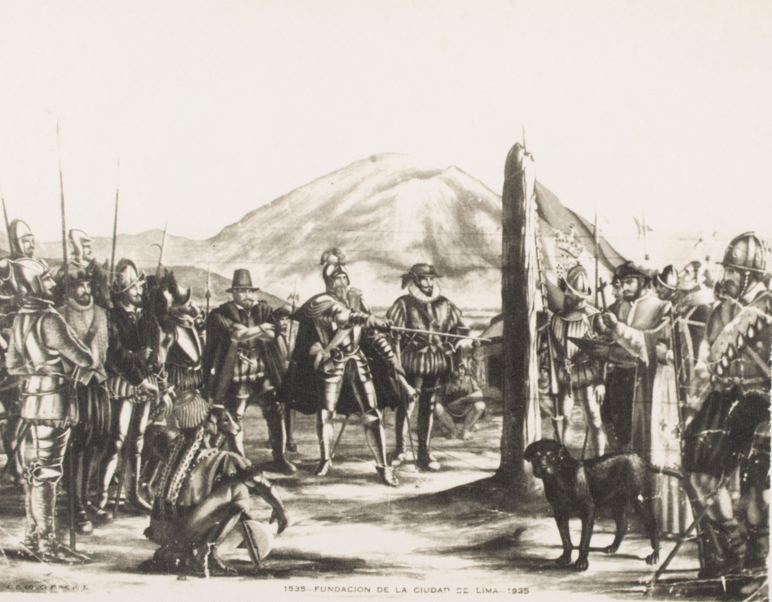 Imaginary portrait of Lima foundation in 1535.